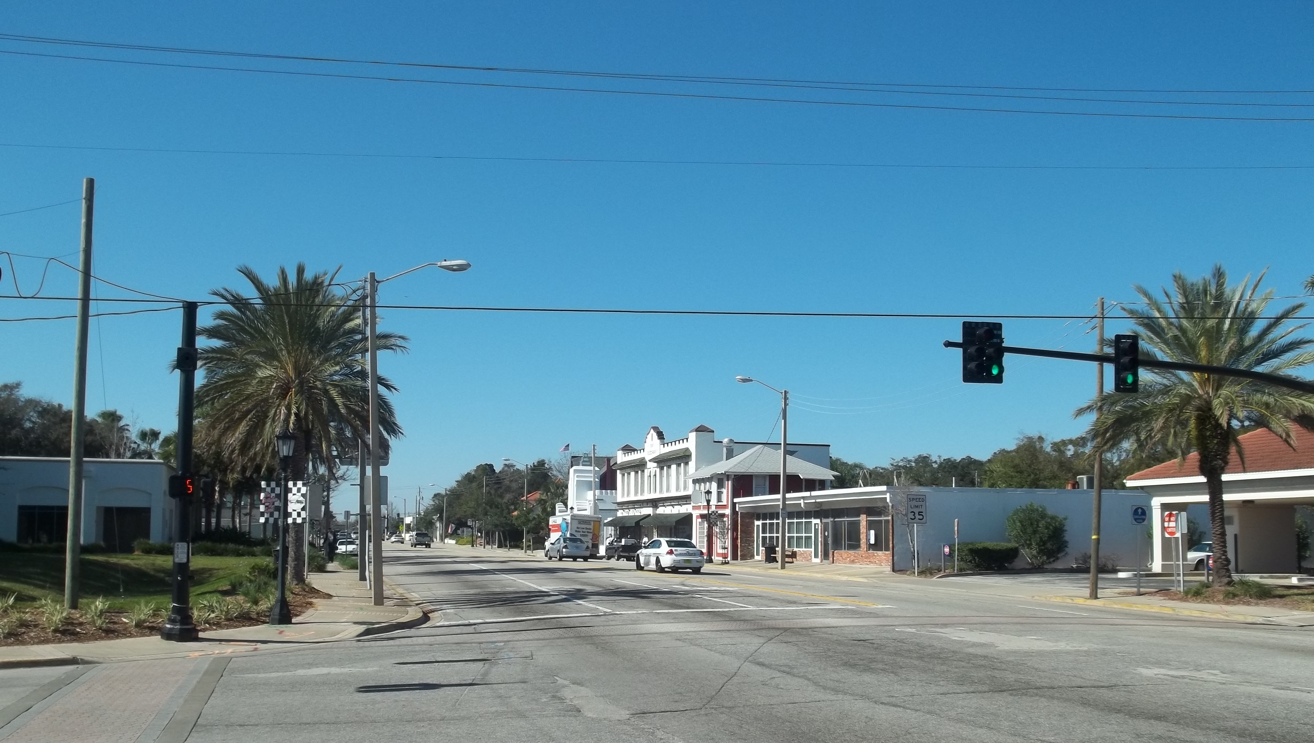 Ormond Beach, Florida: Florida State Road 40, looking west